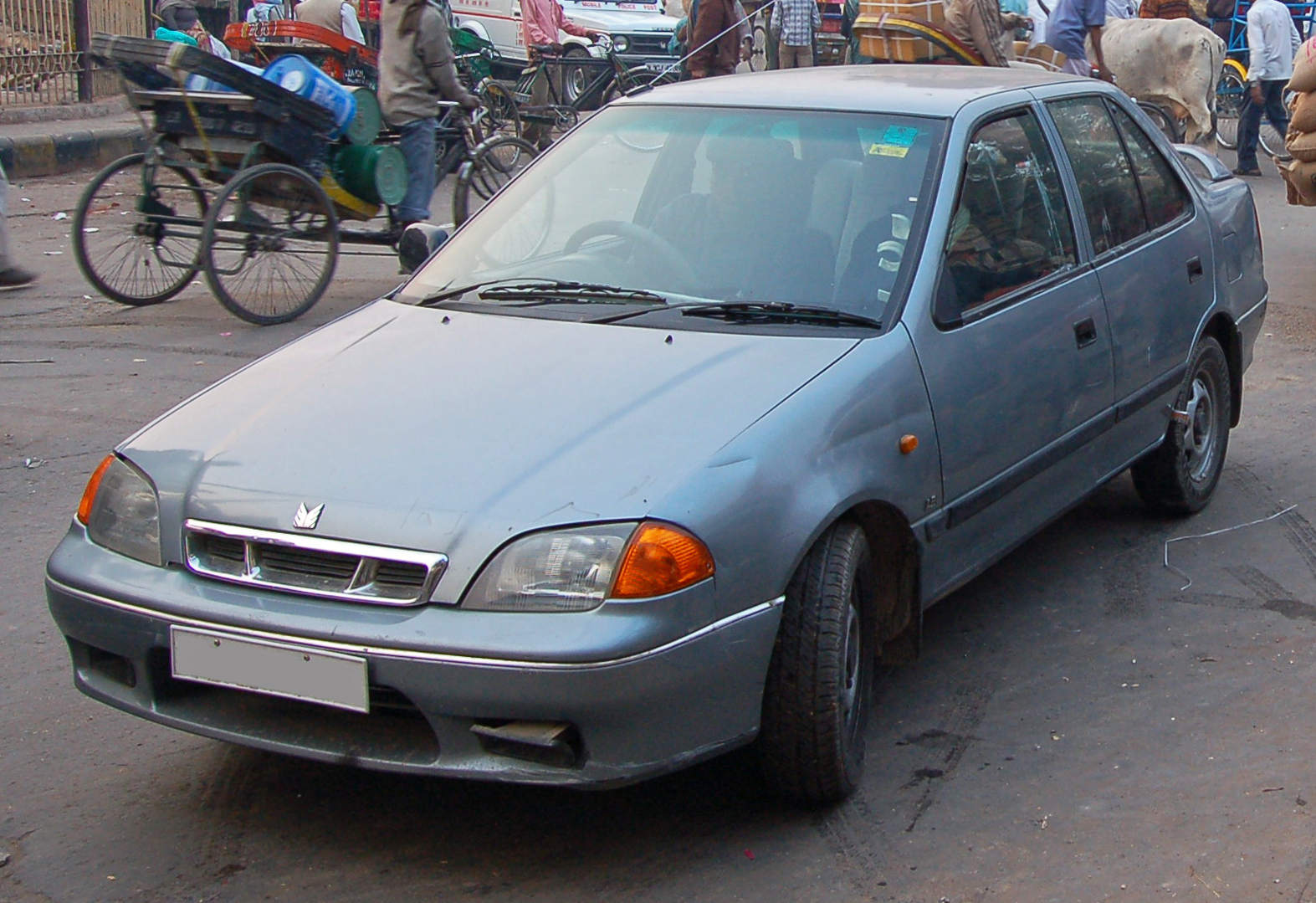 A 1998-2002 Maruti 1000/Esteem on Chandni Chowk, Delhi.